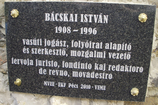 Plaque of István Bácskai (Pécs, Hungary)